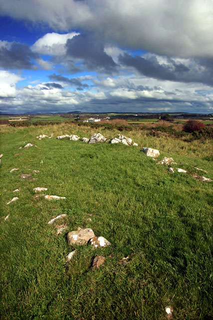 Viking Ship Burial: Balladoole